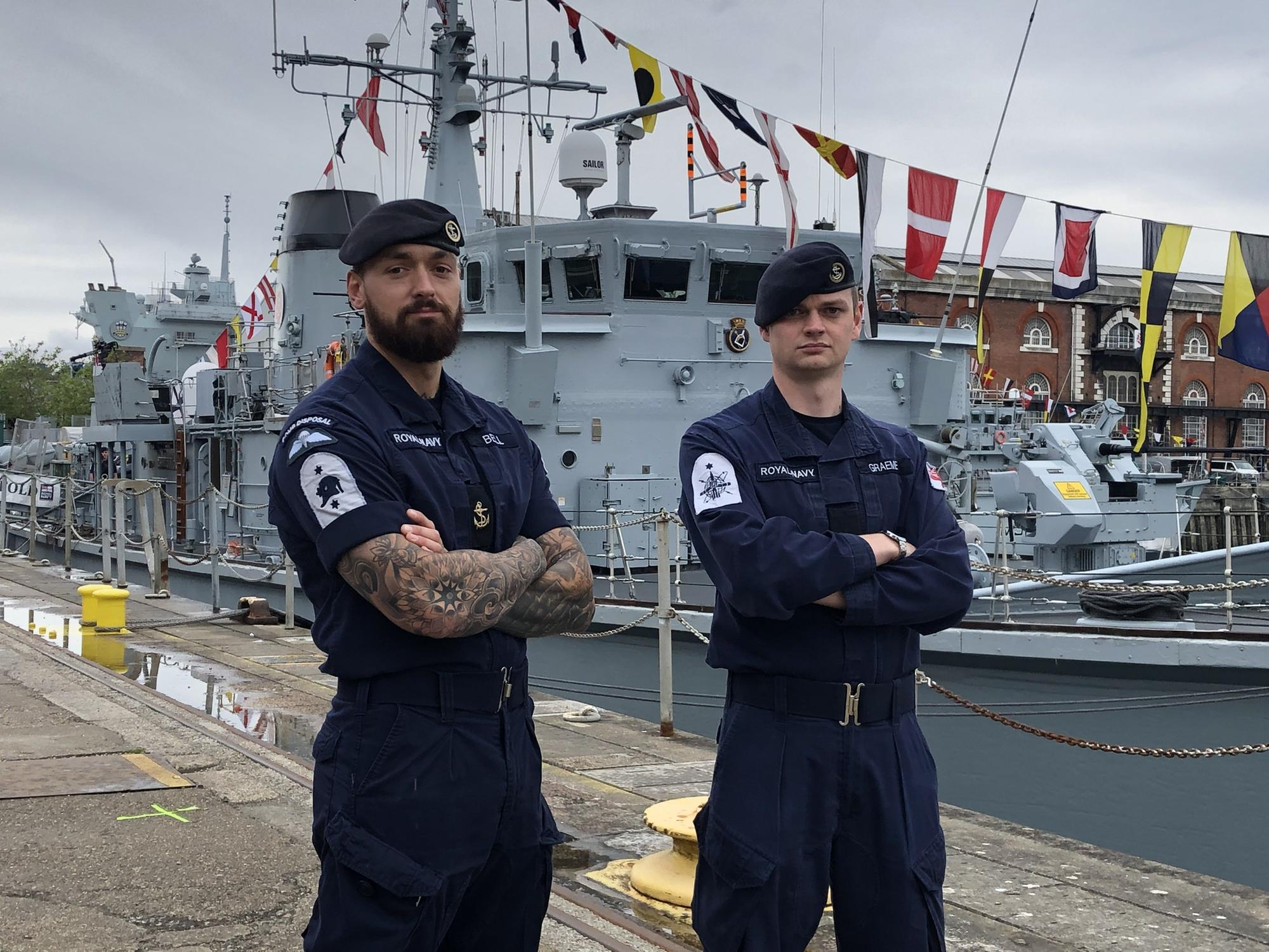 Ratings wearing the standard issue RNPCS Uniform